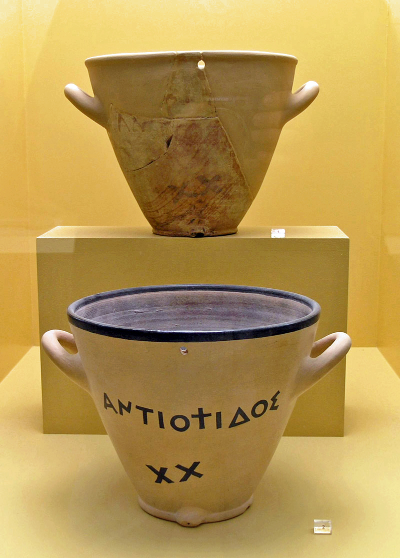 Klepsydra - Water Clock: Reconstruction of a clay original of the late 5th cent. B.C. Ancient Agora Museum in Athens.